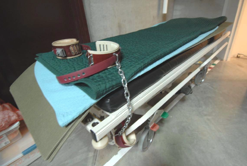 Gurney used for forced enteral feeding of prisoners in Guantanamo Bay